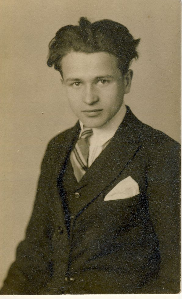 Young Béla Vihar, Prof. Dr. Judit Vihar's father